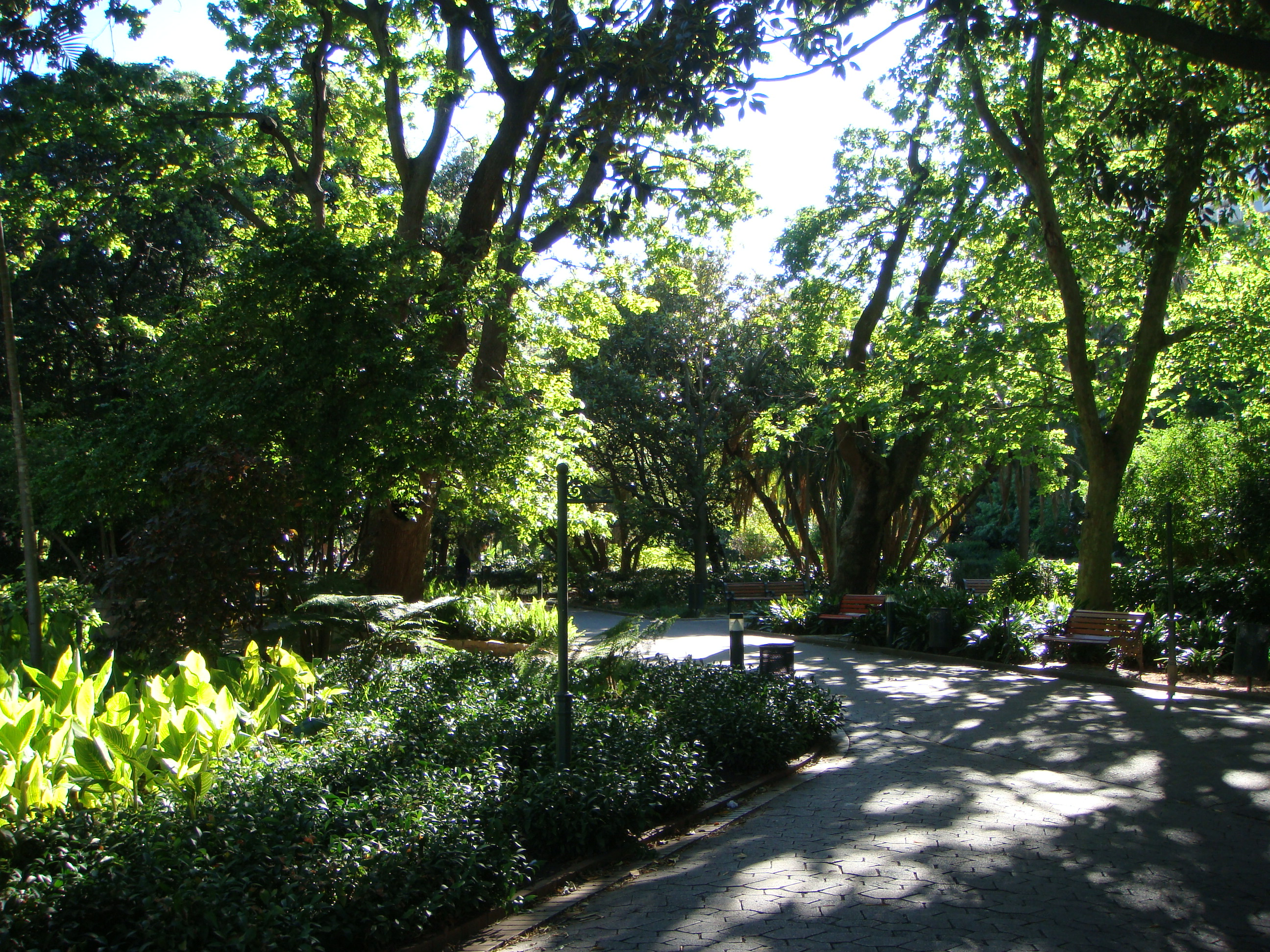 Typical summer scene in the Company's Garden